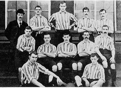 The Sheffield United team before a match with Stoke City.